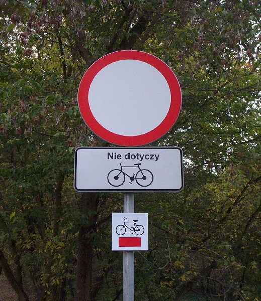 Roadsign (znak B-1) and cycleway sign in Toruń, Poland.